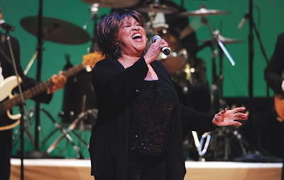 Mavis Staples shows her singing prowess during the 2006 NEA National Heritage Fellows concert.